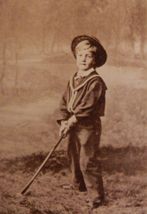 A circa 1875 photograph of Scottish amateur golfer Frederick Tait.